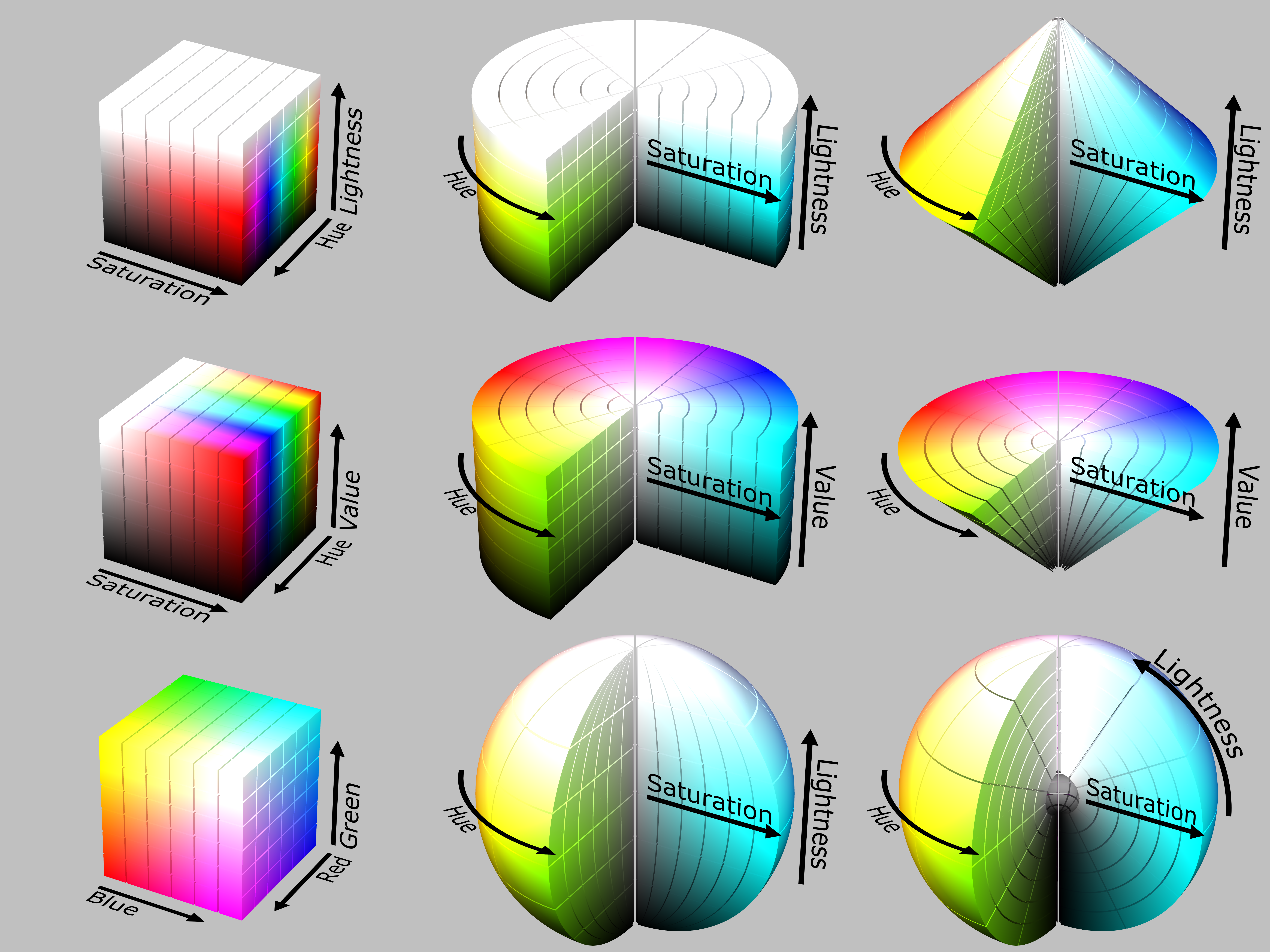 Comparison of different color solids for the HSL, HSV and RGB color models. Note: The two bottom-right spherical models are original research.